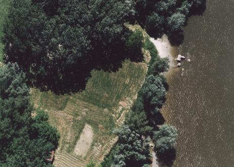 Dunafalva, Hungary, aerialphotography